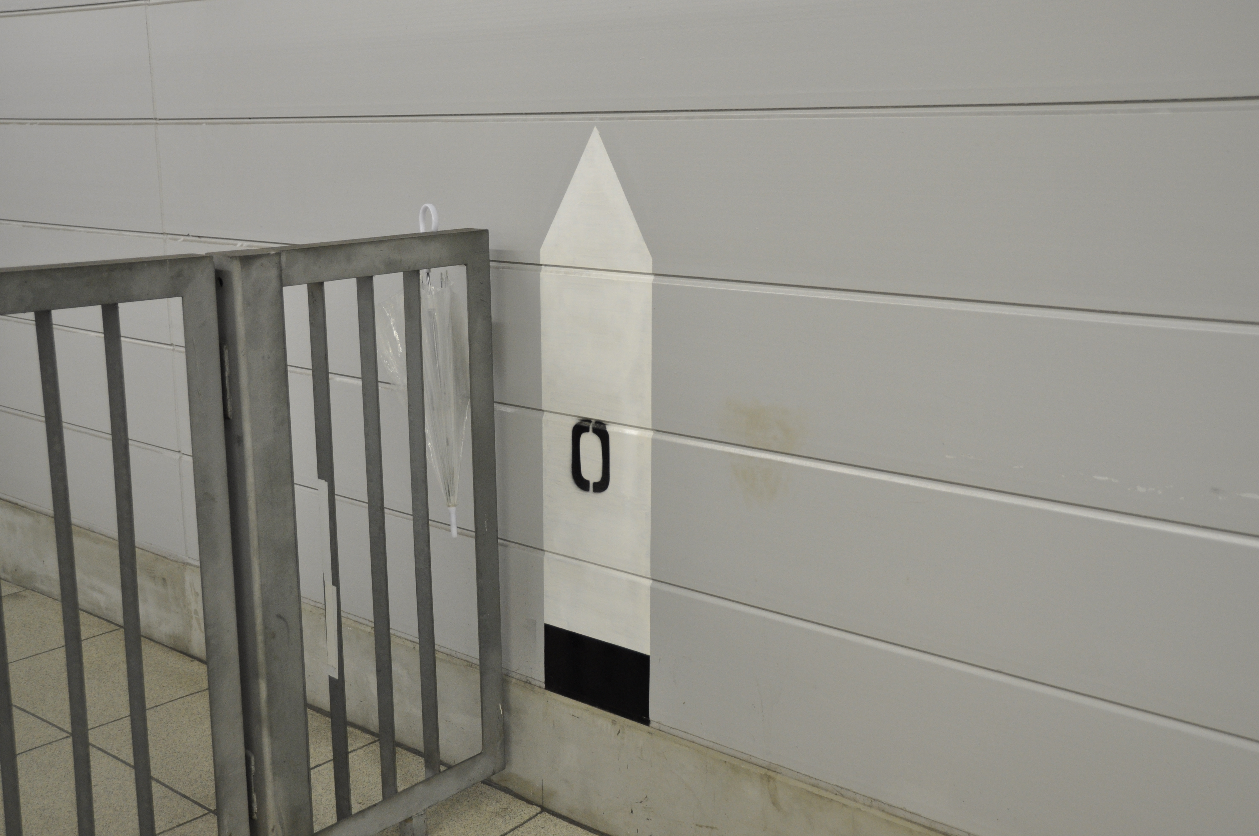 Keio Doubutuen (Zoo) Line 0km-post at 1st platform of Takahata-fudo st.